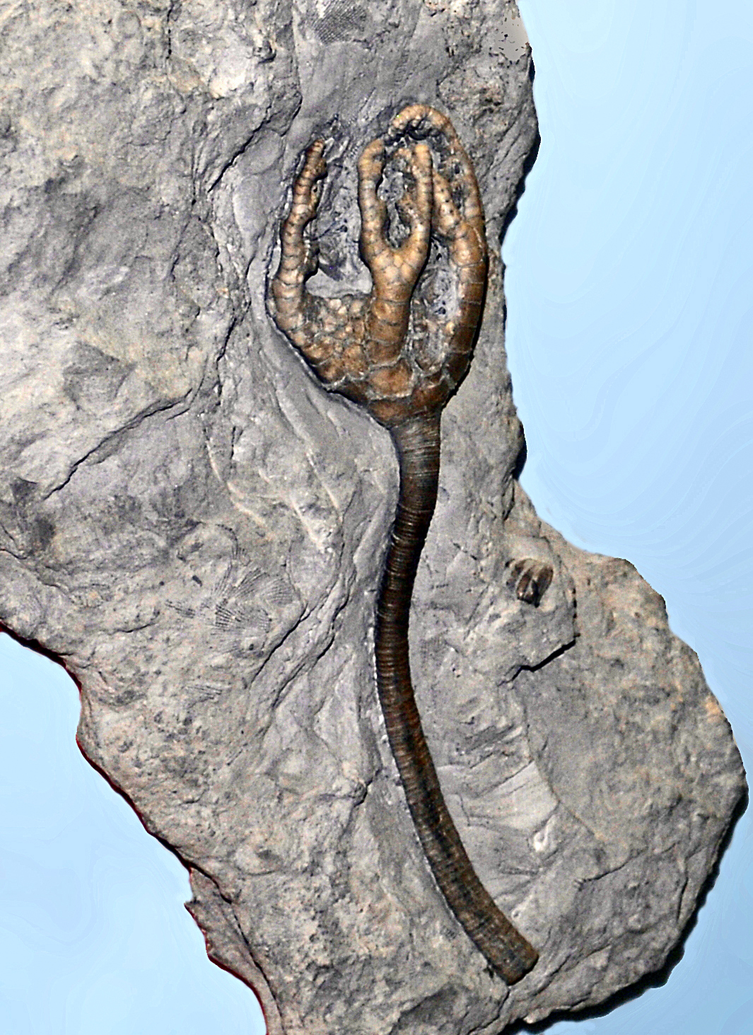 Fossil of Onychocrinus species from Carboniferous of United States, on display at the Museo Civico di Storia Naturale di Milano